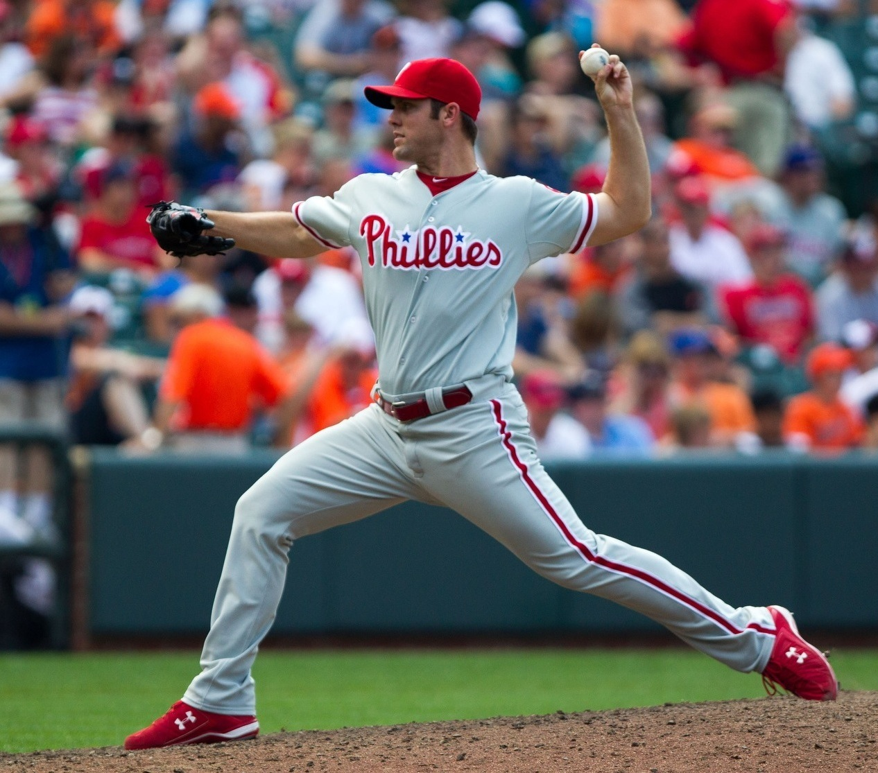 Philadelphia Phillies pitcher Joe Savery (55) in a game against the Baltimore Orioles at Oriole Park at Camden Yards on June 10, 2012.